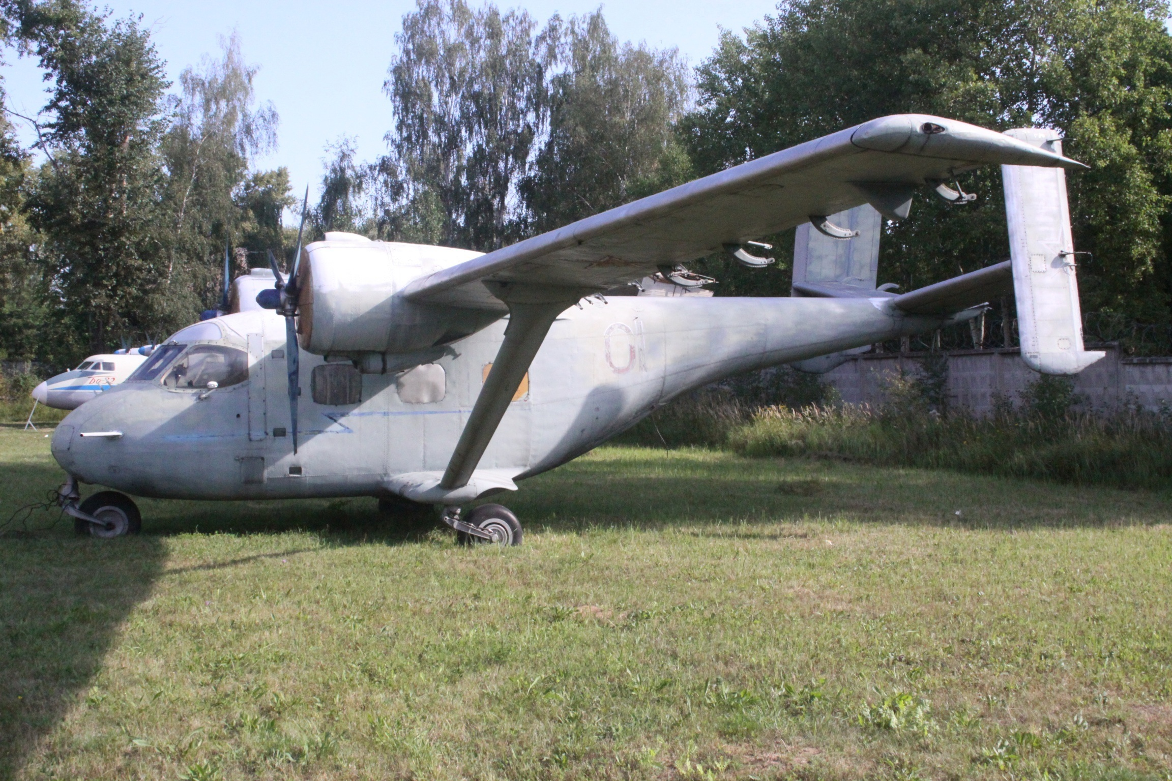 At Monino Museum